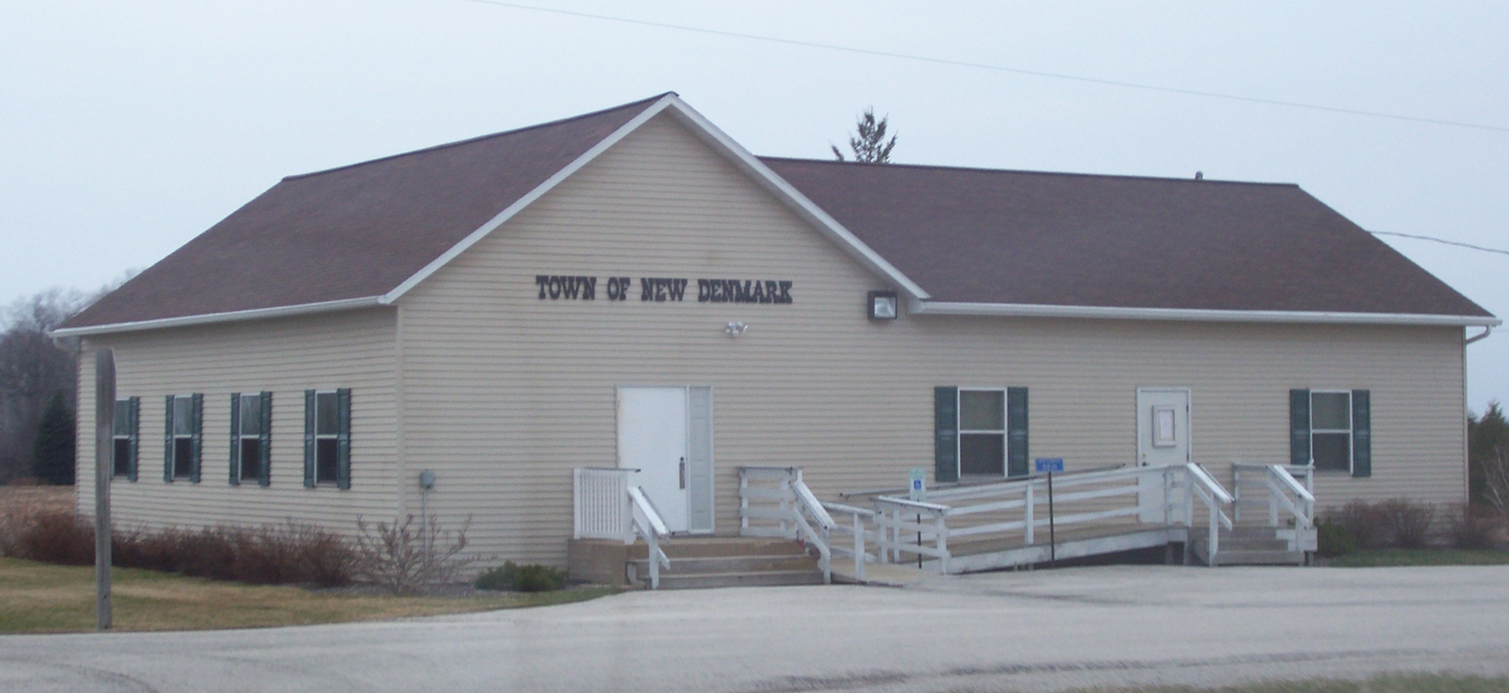 Looking east at the town hall for the township of New Denmark, Wisconsin, US.